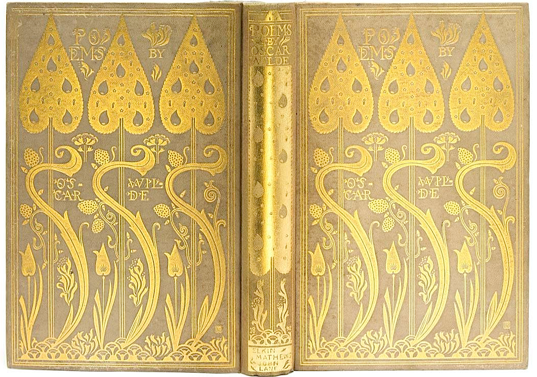 Cover of Poems by Oscar Wilde, designed by Charles Ricketts - book published by Elkin Mathews & John Lane - The Bodley Head (London).